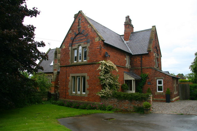 Former school house at Kirby Hill (Kirby-on-the-Moor), near Boroughbridge, North Yorkshire. It has a bell gable inscribed with the year AD 1867. The parish school moved to a modern building completed in 2002.